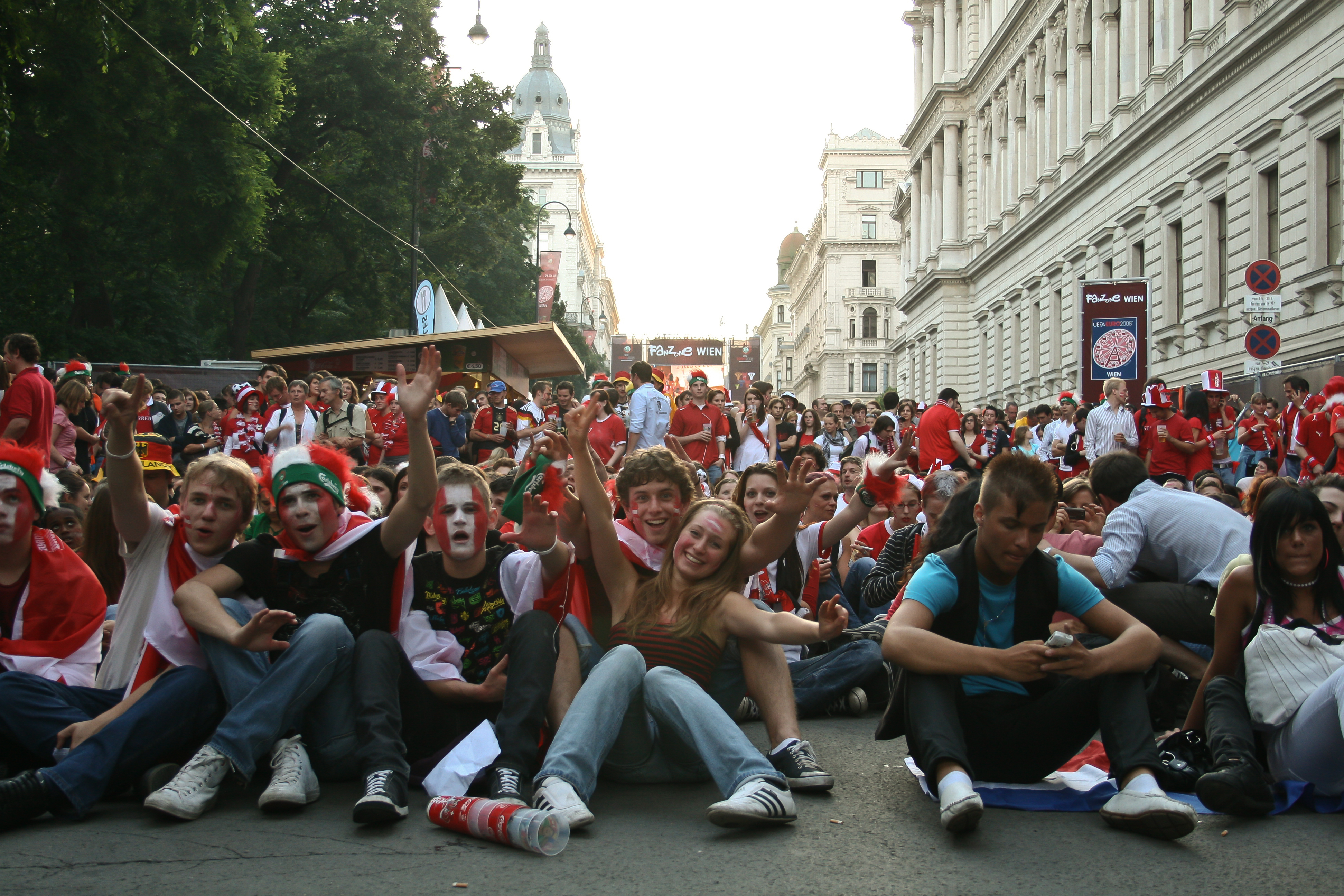 Public Viewing in Vienna during UEFA Euro 2008